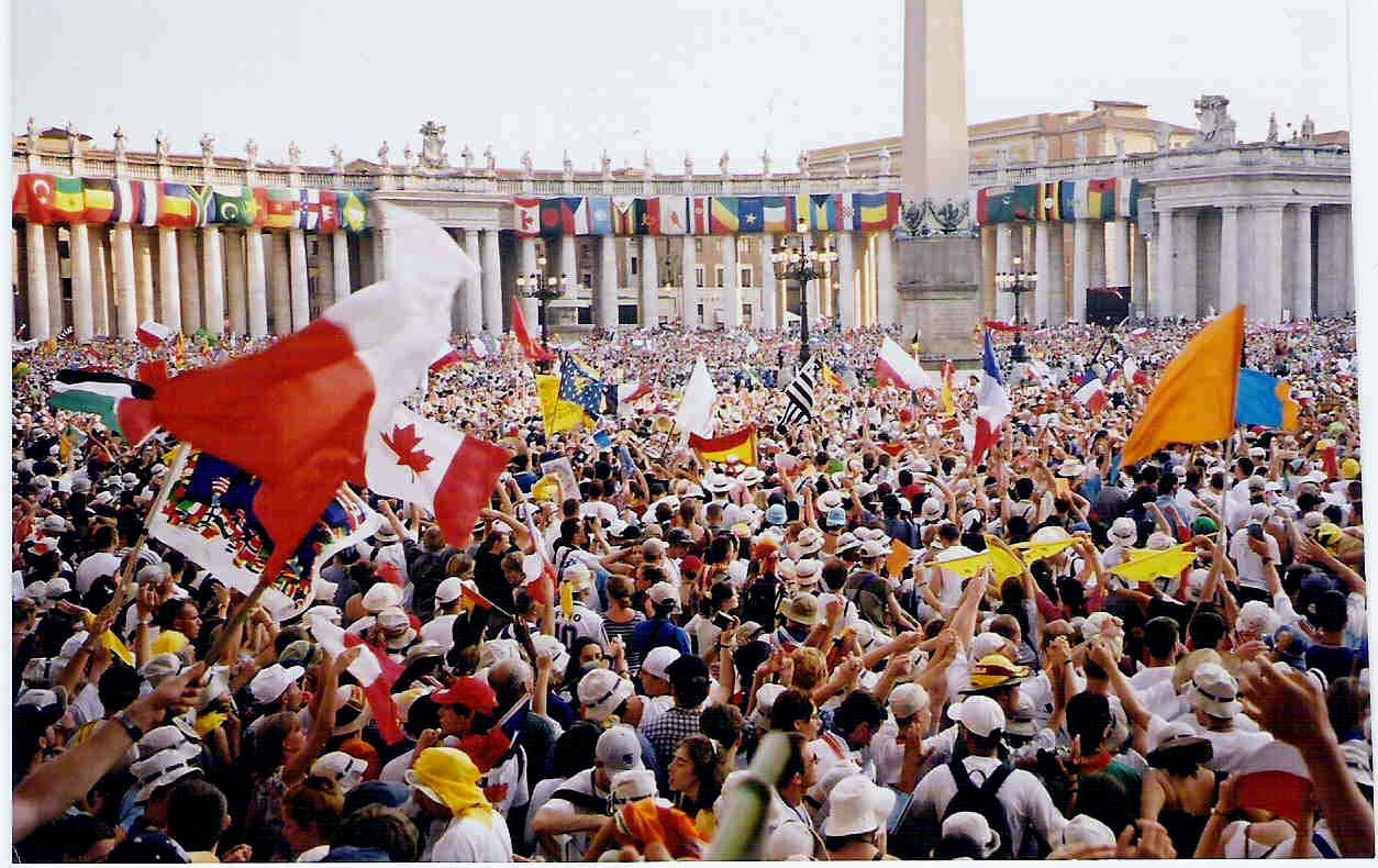 This picture was taken by me (User:sporki) on World Youth Day in Rome year 2000.